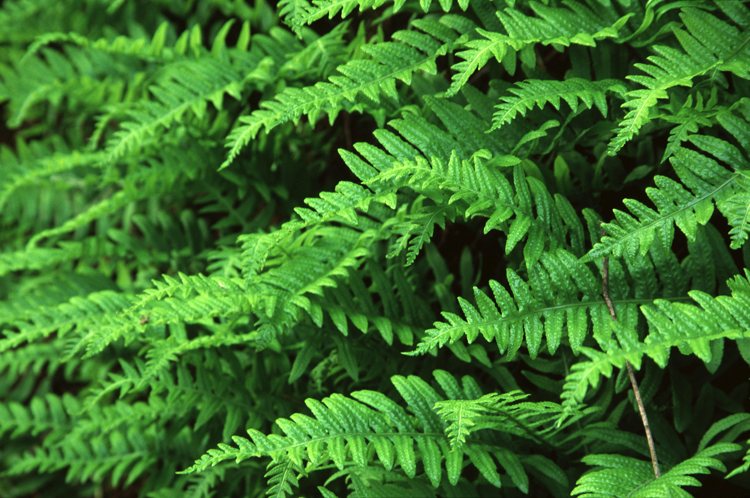 Polypodium calirhiza — Nested polypody (fern). At the Humboldt Bay National Wildlife Refuge, Humboldt County, coastal Northern California.